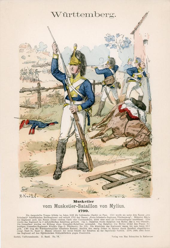 Württemberg. Musketier vom Musketier-Bataillon von Mylius. 1799